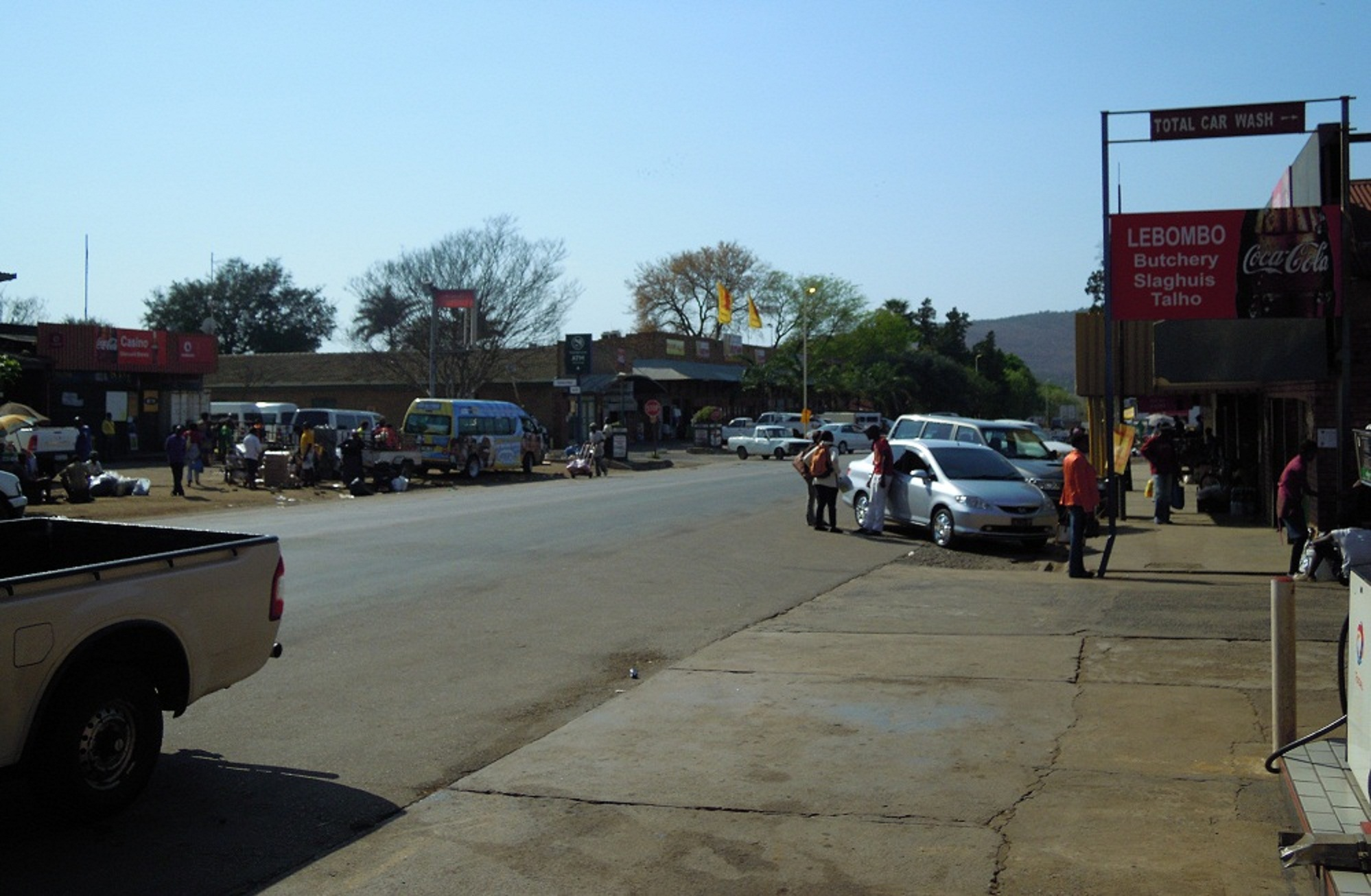 Komatipoort